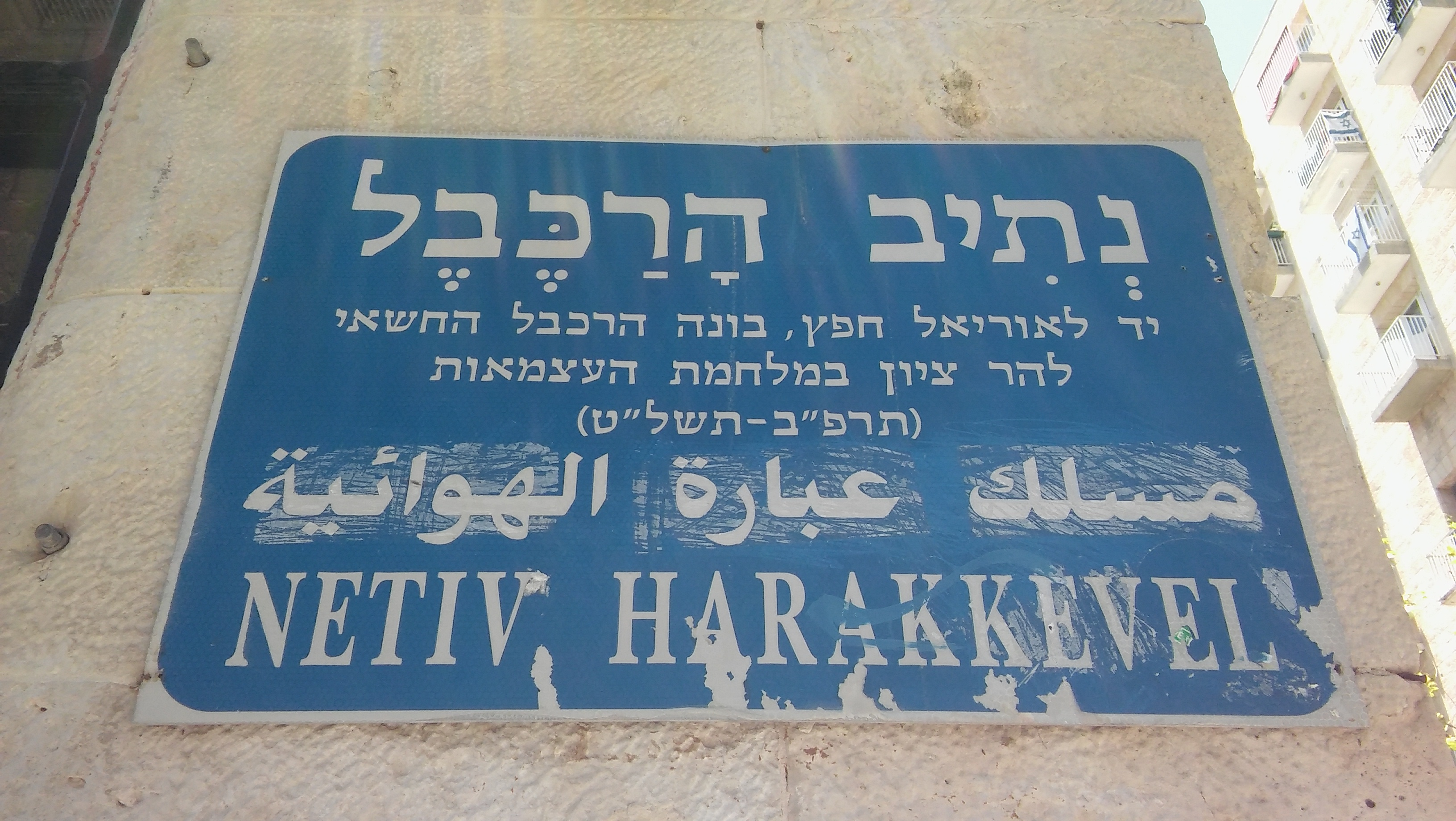 Jerusalem, netiv harakkevel named after Mount Zion Cable Car